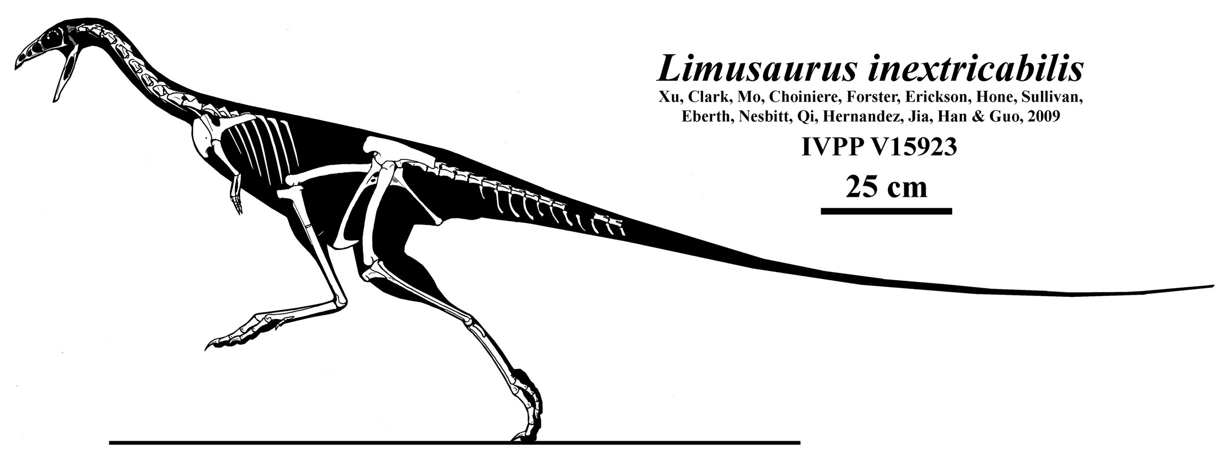 Skeletal reconstruction of Limusaurus inextricabilis. Matches proportions in published skeletal reconstruction by Gregory S. Paul in the 2016 book The Princeton Field Guide to Dinosaurs.